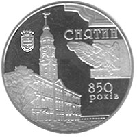 Coin of Ukraine